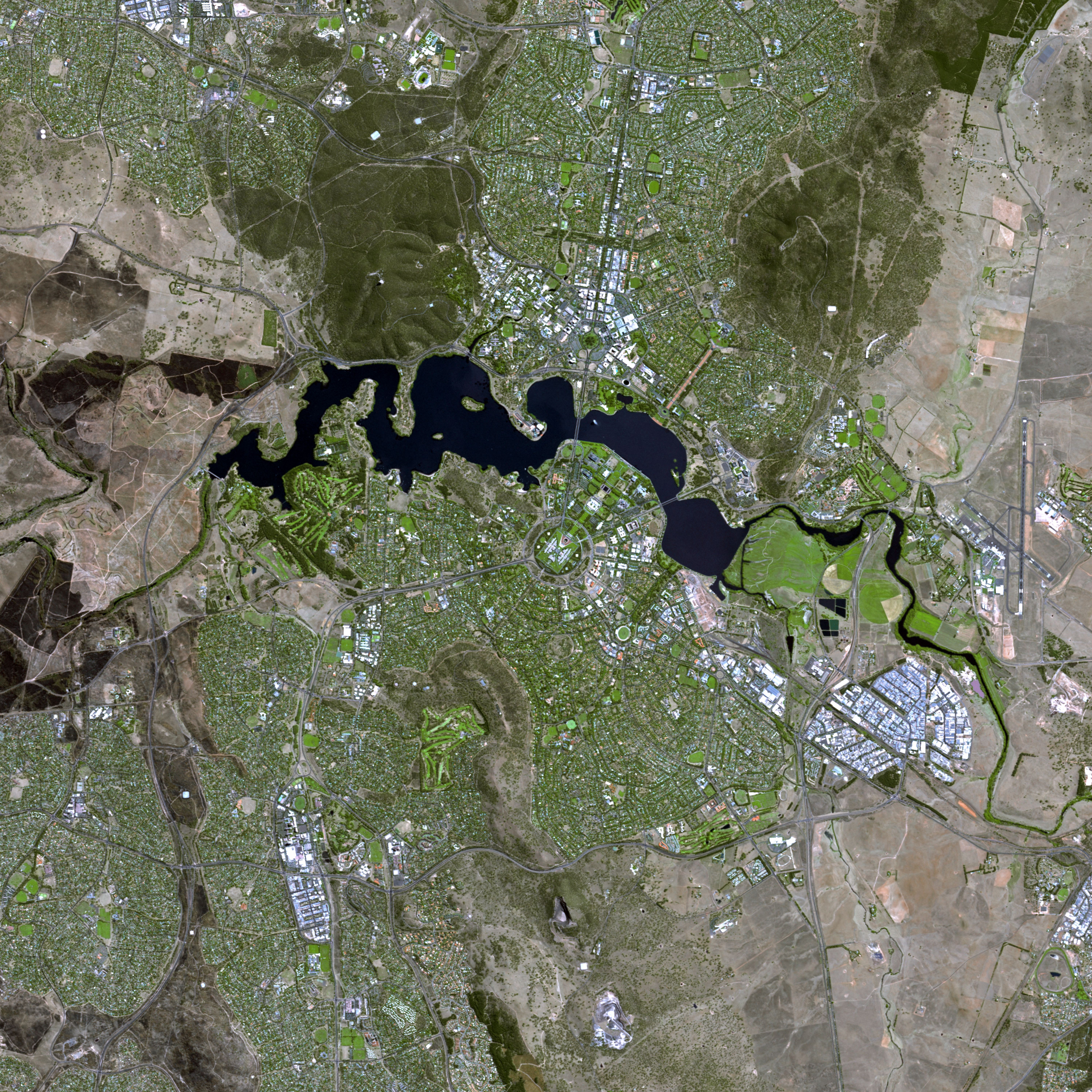 Canberra by SPOT Satellite